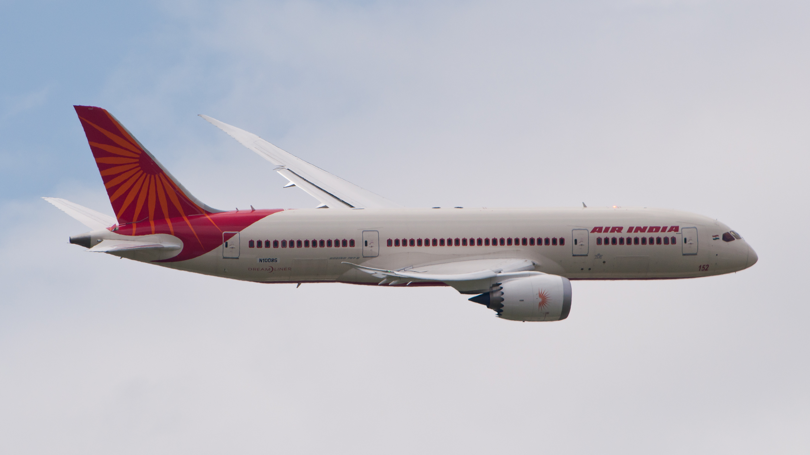 Air India Boeing 787 (reg. N1008S, c/n 36285/90) flying at Paris Air Show 2013.